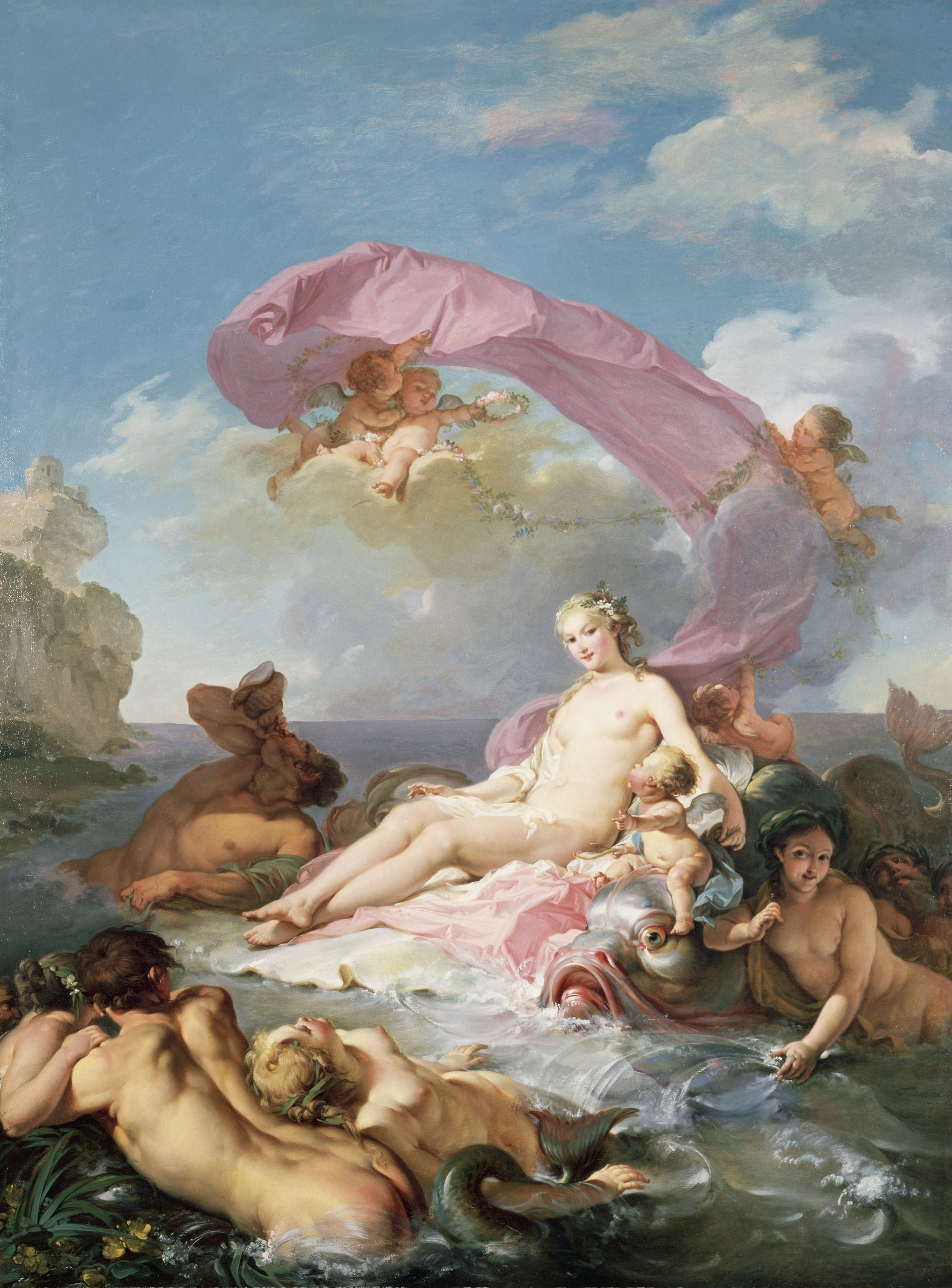 This painting shows the nereid (or sea nymph) Amphitrite, lover of the sea god Poseidon, borne in queenly procession on the backs of dolphins and other sea creatures. The lush colors, curving bodies and cloth textures exemplify the Rococo style. The position of the sea creatures’ bodies and the sash carried by putti draw the eye towards the sea queen, reinforcing her importance.